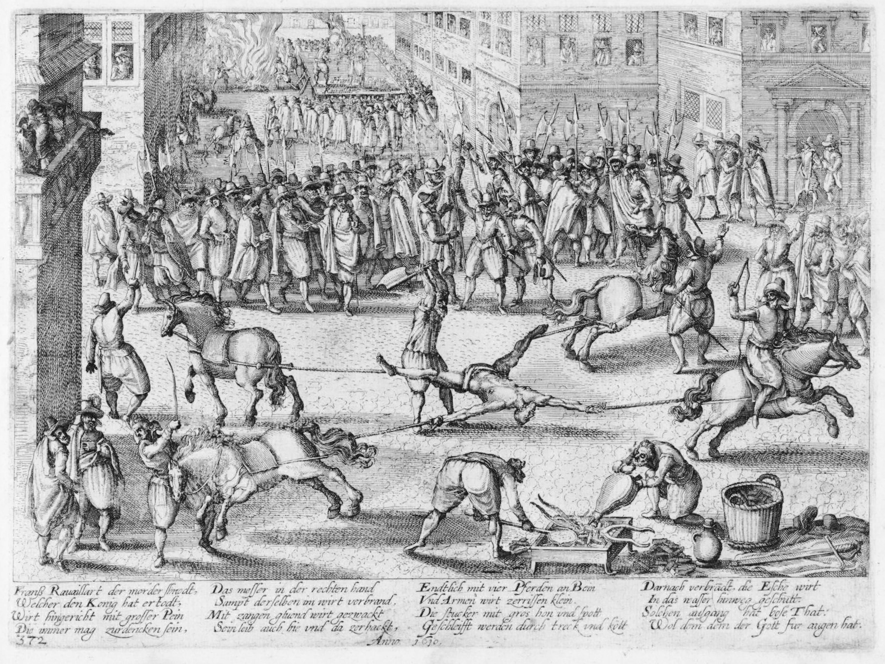 Quartering of Francois Ravaillac